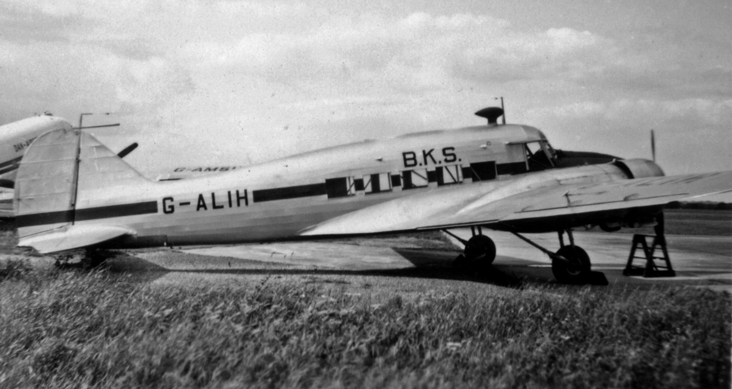 Built for the RAF as NL229, this Anson was civilianised in 1951 as G-ALIH. It passed to BKS at Southend in 1954, where I photographed it during that summer. Photo: Richard John Goring (Transportraits)